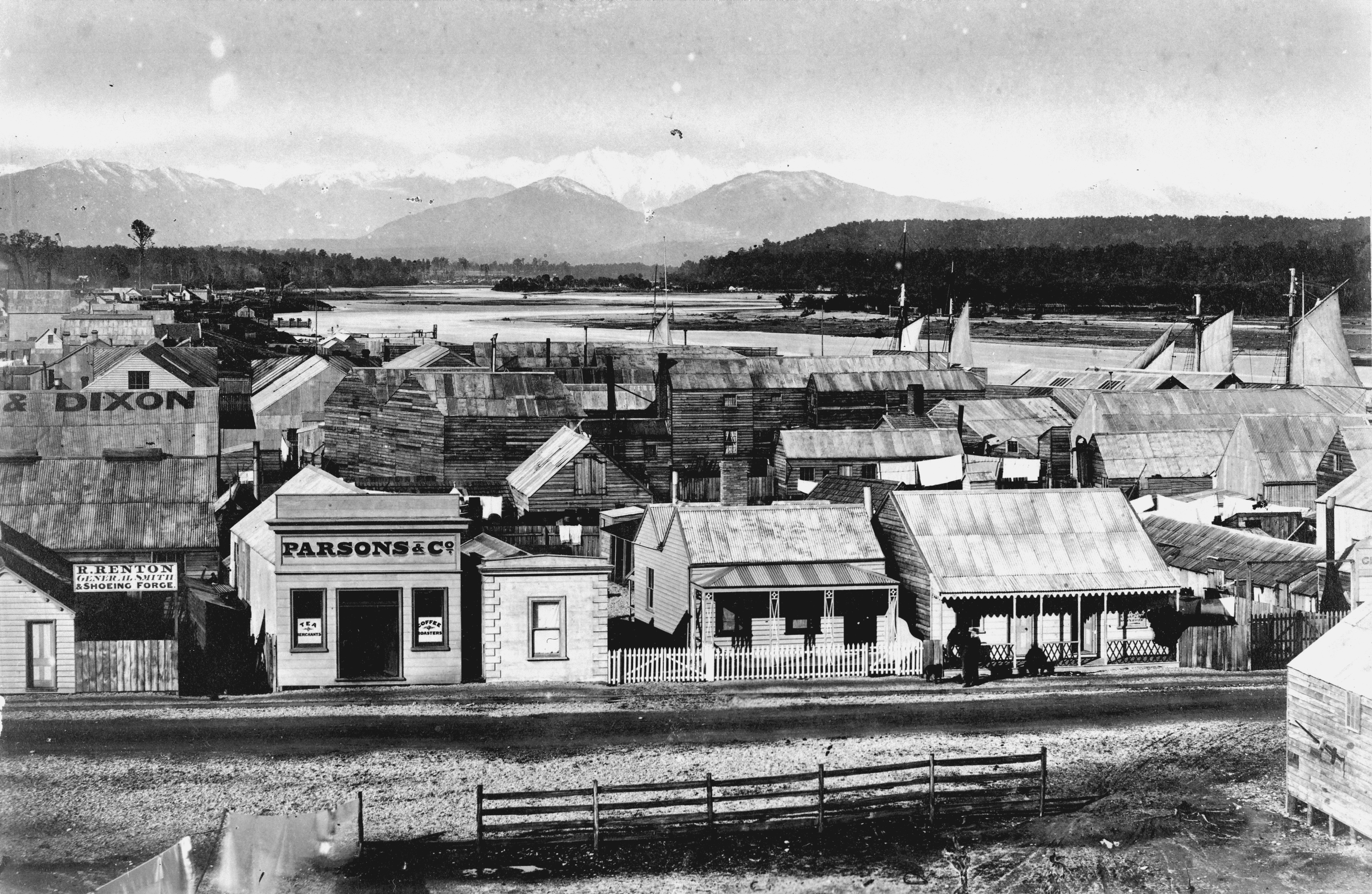 Photographer: James Ring (1856-1939)[1] Hokitika township, ca 1870s Original print Reference No. PA7-51-05-1 Photographic Archive, Alexander Turnbull Library, National Library of New Zealand